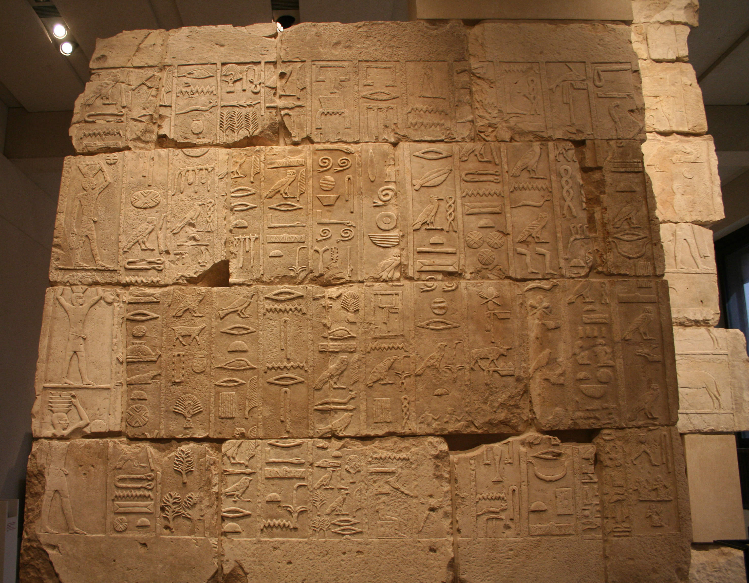 Ägyptisches Museum (Egyptian Museum), Berlin